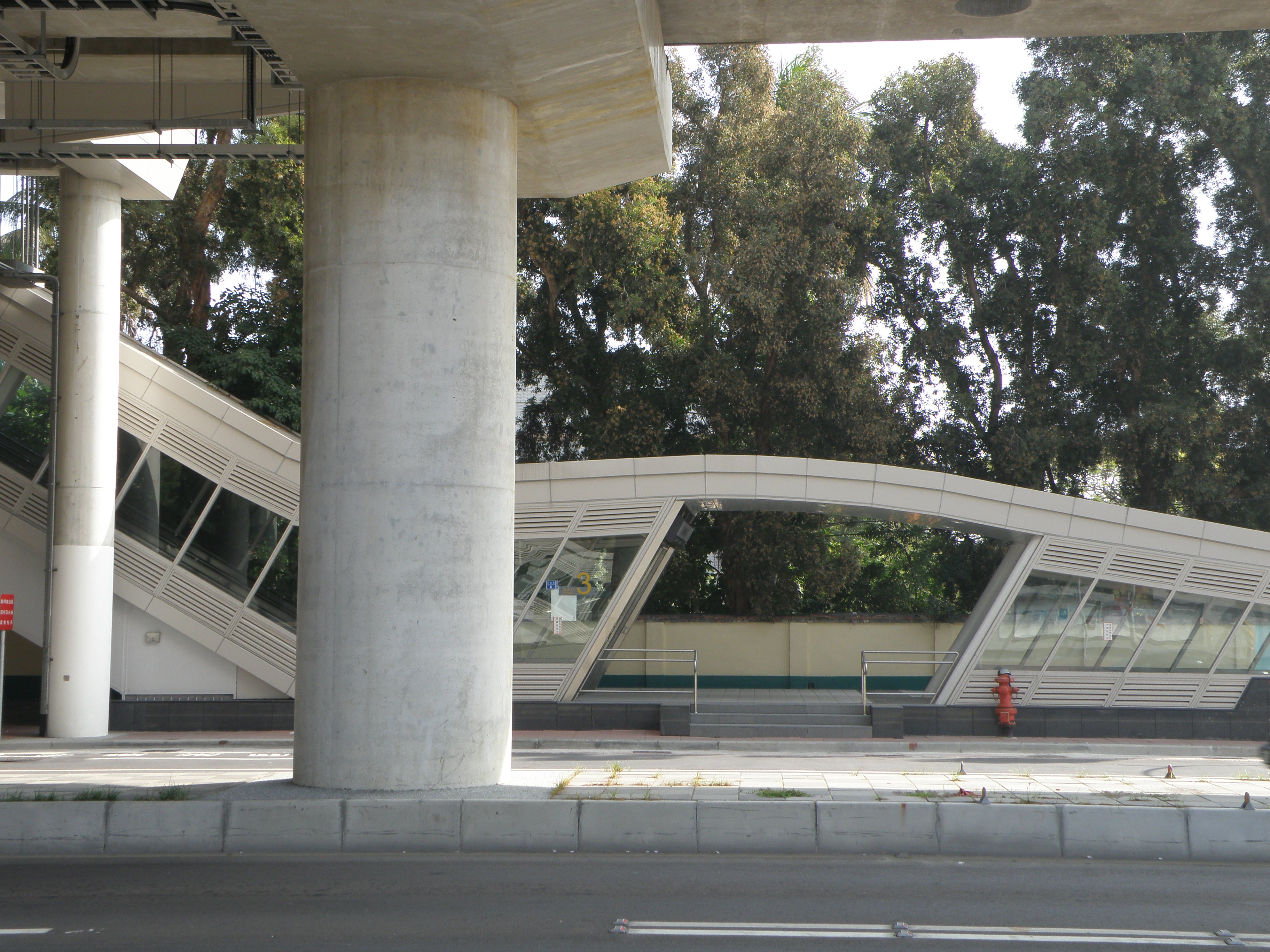 Exit No.3 of Oil Refinery Elementary School Station, Kaohsiung Mass Rapid Transit.